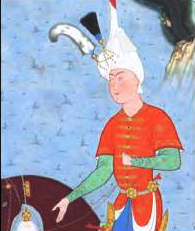 Painting of Shapur II in The Shahnama of Shah Tahmasp